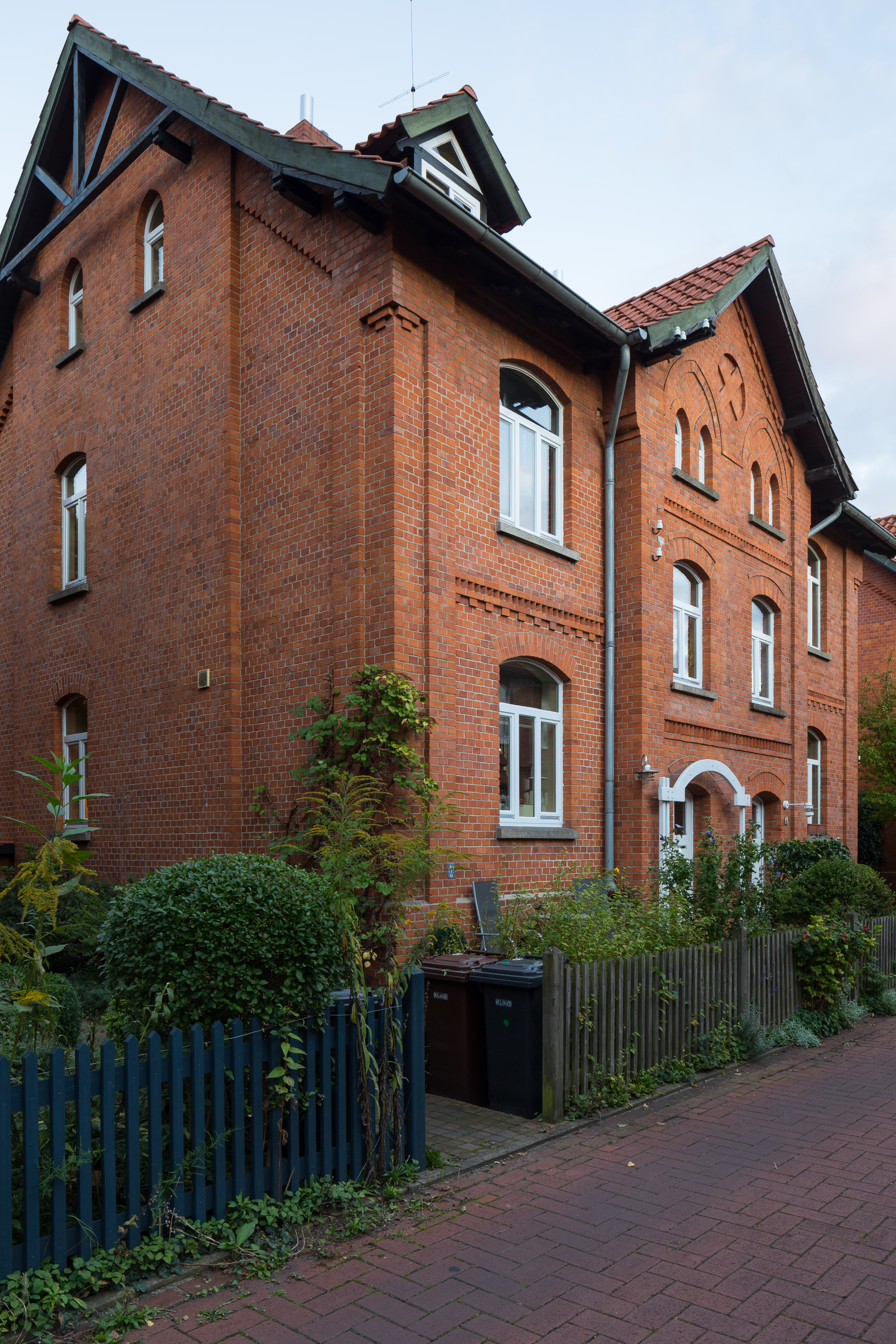 Former workers' settlement Doehrener Jammer (= Doehren misery) located in Doehren quarter of Hannover, Germany. The pictured house is located at Allerstrasse.